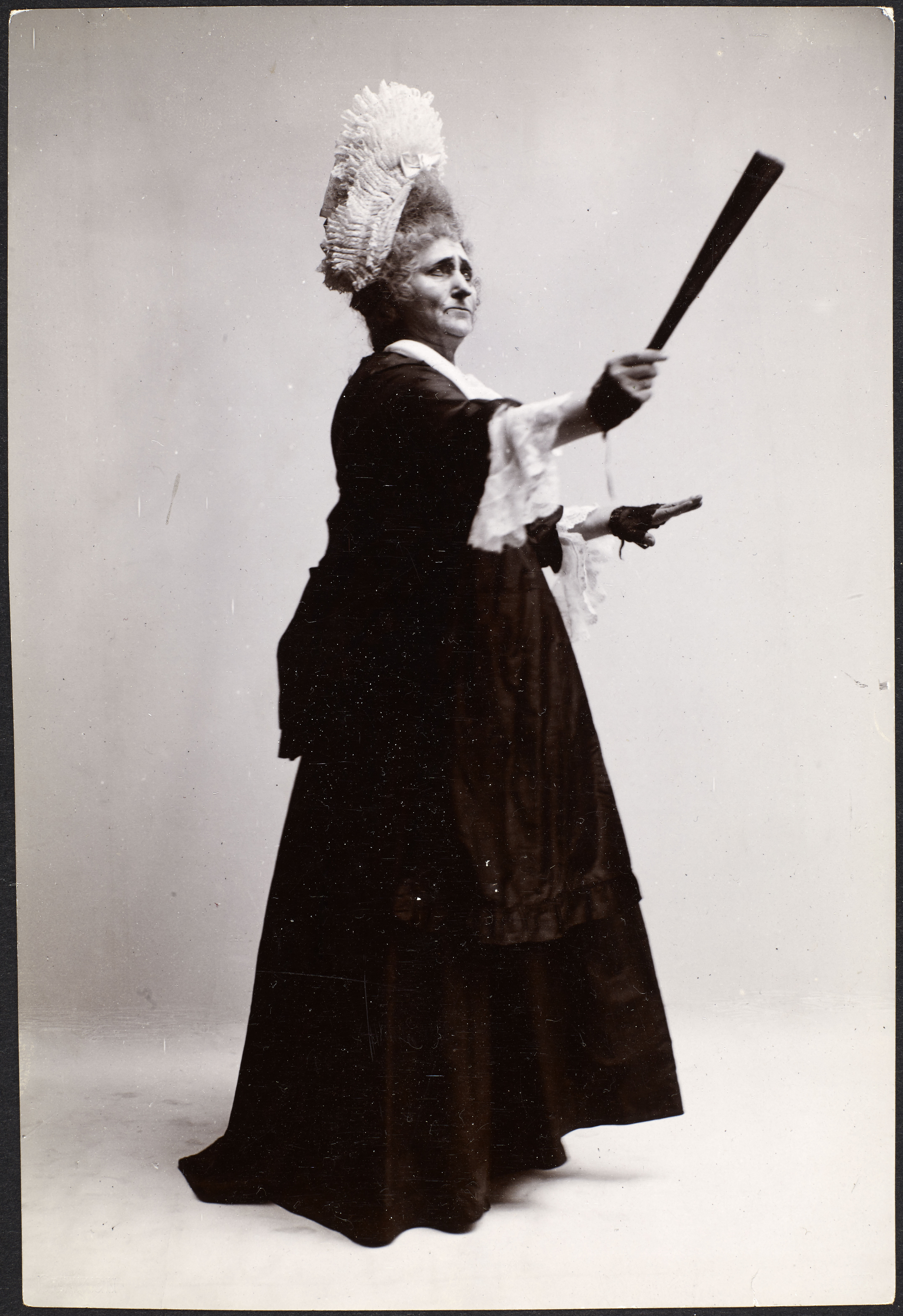 Louise Phister (1816-1912) In the part of Else Skolemesters in 'Barselstuen' Photo dated 1885-90 4to_2_1950-nr_130_176